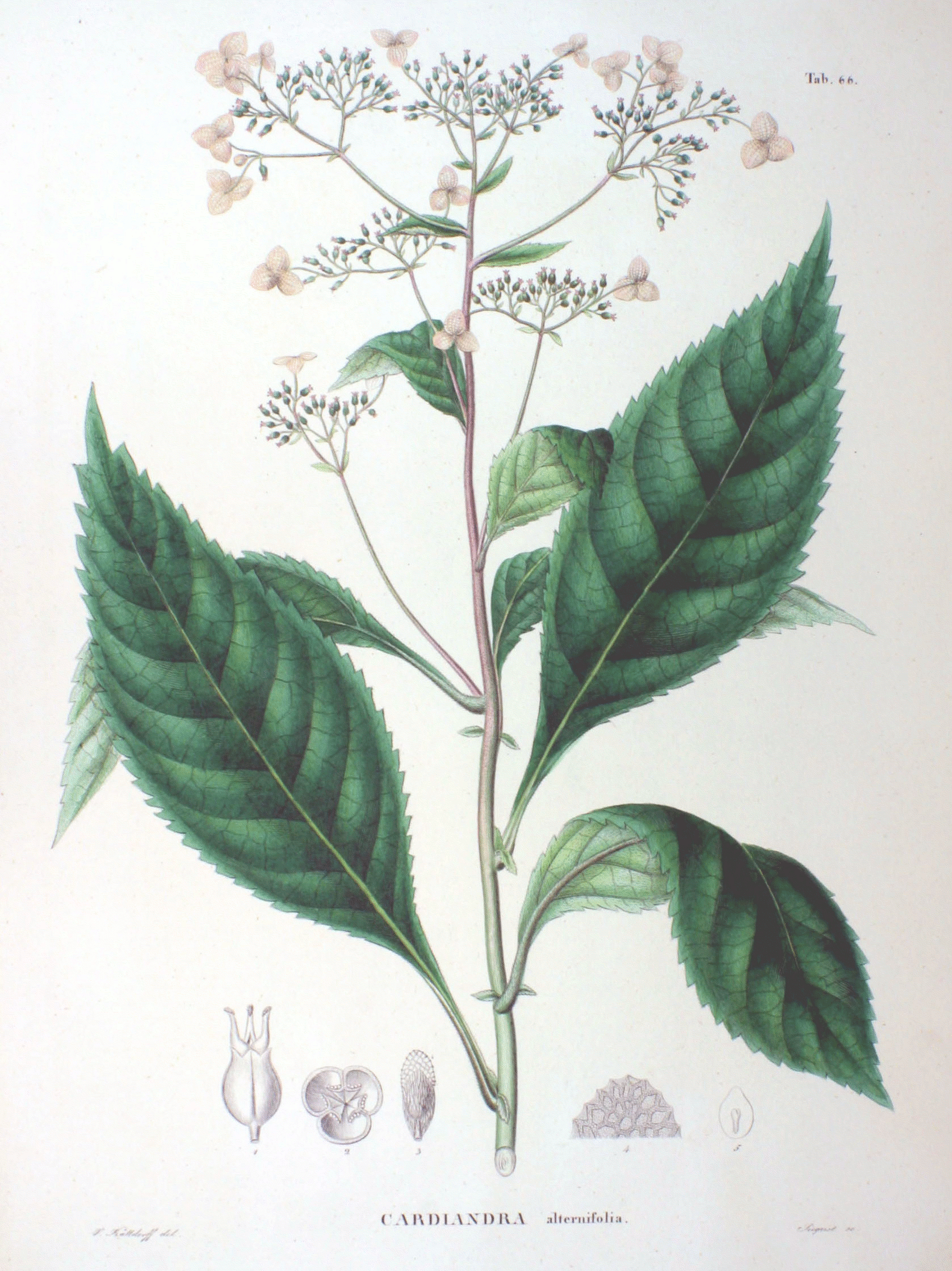 Cardiandra alternifolia Plate from book